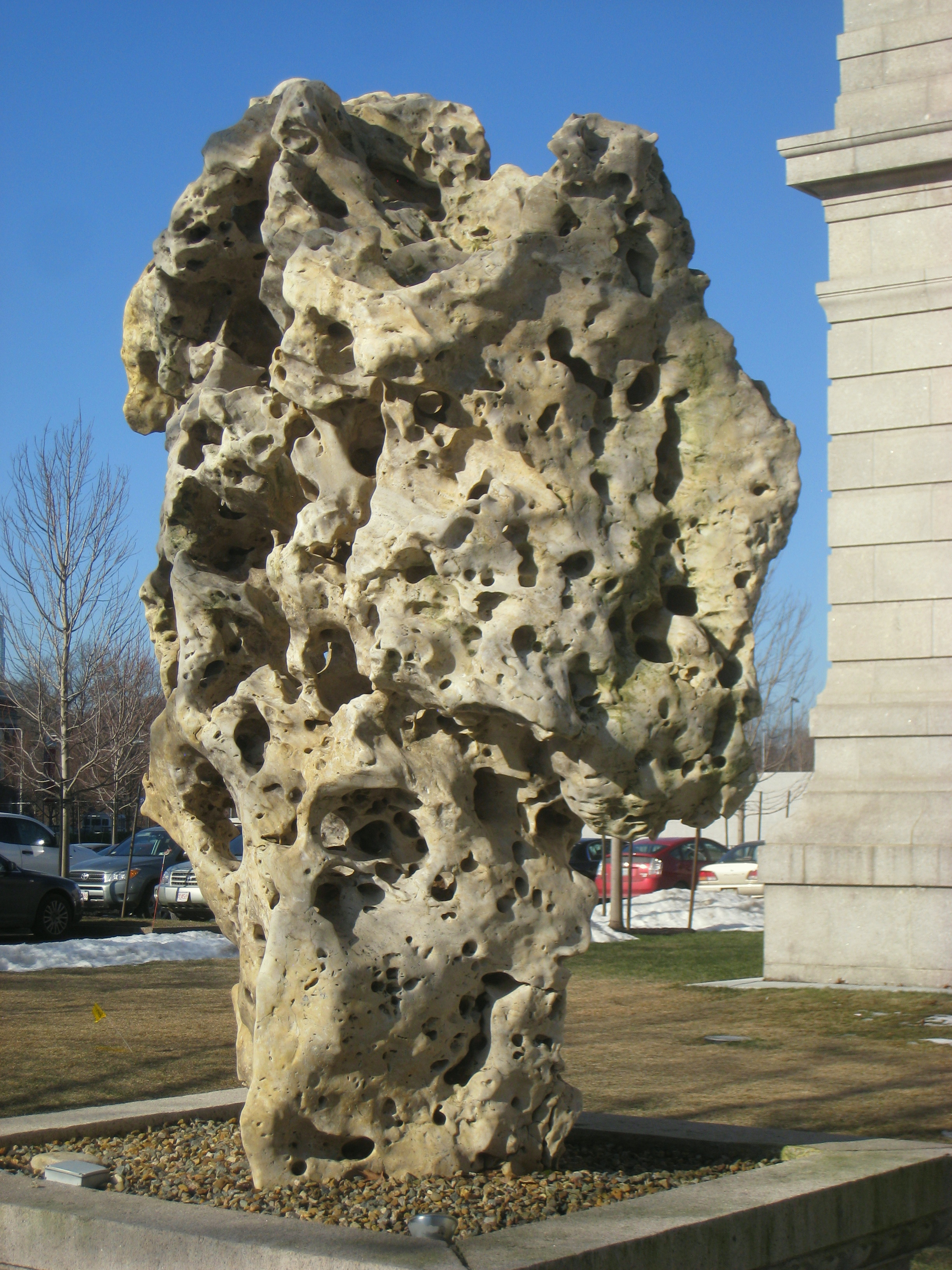 Chinese scholar stone from Lake Taihu, outside of the Museum of Fine Arts, Boston, Massachusetts, USA. Sculptor Cyrus E. Dallin, 1909.